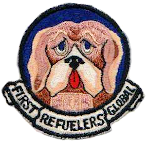 Emblem of the 43d Air Refueling Squadron (SAC) (1950s)